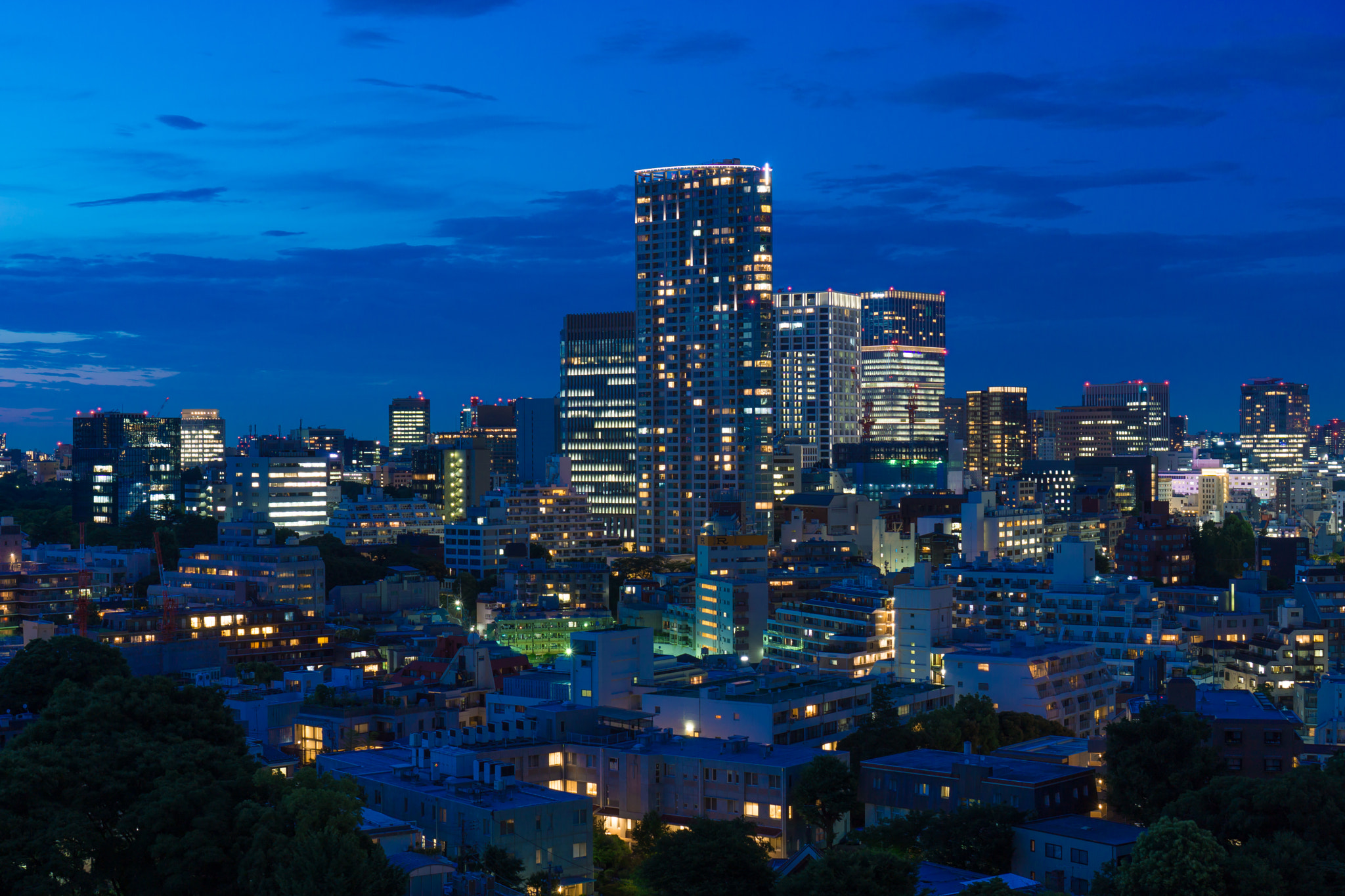 500px provided description: Akasaka Evening 2017 06 30 [#sky ,#city ,#downtown ,#travel ,#urban ,#architecture ,#cityscape ,#building ,#evening ,#sight ,#town ,#skyline ,#skyscraper ,#apartment ,#modern ,#panoramic ,#office ,#dusk ,#business ,#condo ,#Minato-ku ,#Tokyo ,#Japan ,#Akasaka]